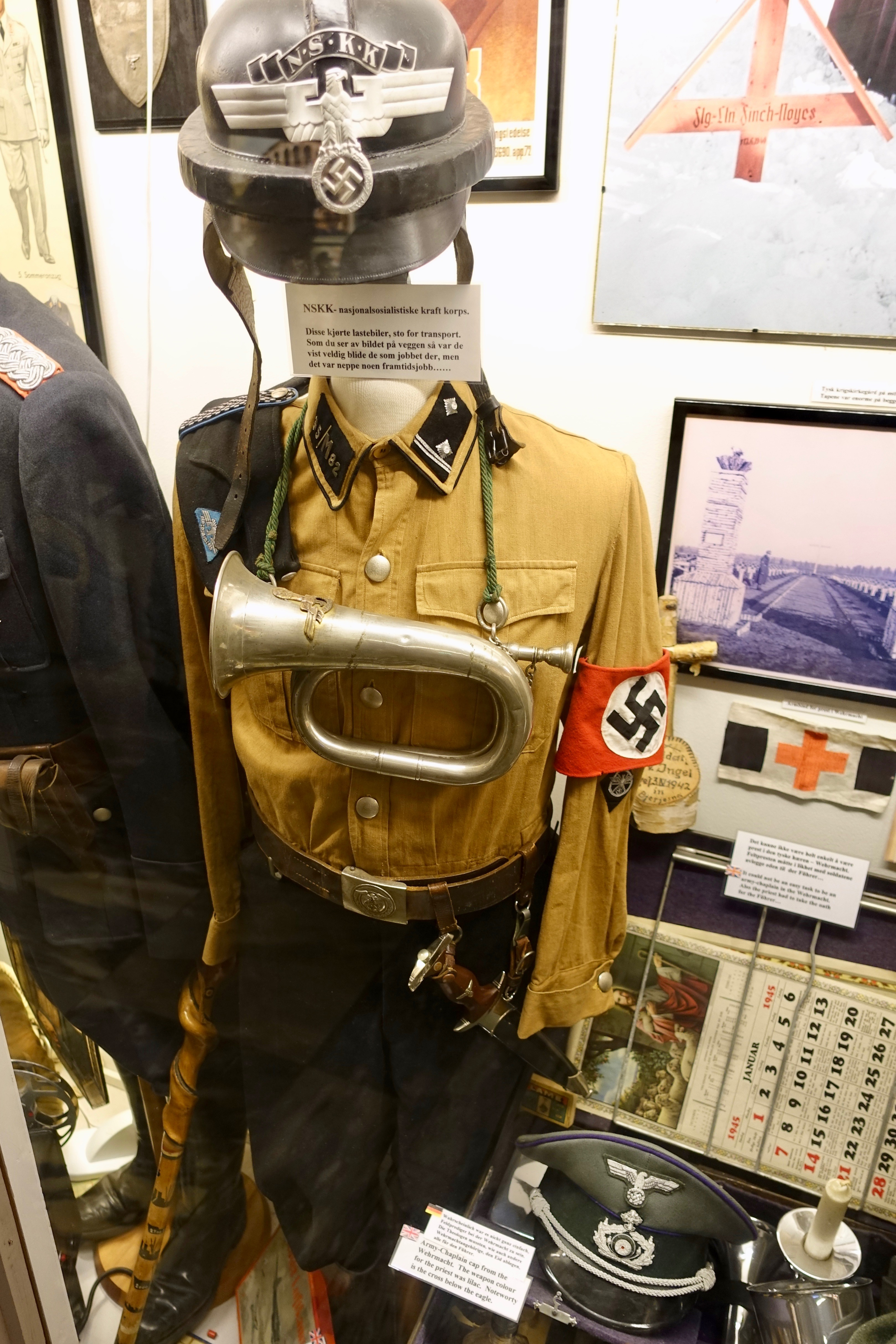 German Third Reich NSKK (Nationalsozialistische Kraftfahrkorps, National Socialist Motor Corps) Obertruppführer uniform, with leather motorcycle helmet (Sturzhelm), side cap under shoulder strap, brown shirt with NSKK diamond on left sleeve, swastika armband, NSKK dagger (similar to that of SA, but with black scabbard), and SA bugle on the chest. Also a German Wehrmacht army officer's visor cap with Christian cross and violet piping for a military chaplain (Feldprediger (protestant) and Feldkaplane (catholic) in German), and a US made Christian educational calendar for January 1945 with Bible verses in Norwegian and painting of 'Jesus the Good Shepherd' by Josef Untersberger aka Giovanni. On the wall is the chaplain's armband, etc.The NSKK (Nationalsozialistisches Kraftfahrkorps) was a motorized paramilitary organization under the auspices of the Nazi Party during the Third Reich. The members of this organization trained in the operation and maintenance of automobiles, trucks and motorcycles. NSKK members had a rank structure based on that of the SA (Sturmabteilung), and wore similar uniforms and insignia.Photo taken on May 8, 2019 at the Lofoten War Memorial Museum (Lofoten Krigsminnemuseum) in Svolvær, Norway. The museum exhibits uniforms, militaria, smaller items, memorabilia, etc. related to World War II and the German occupation of Norway 1940 – 1945.